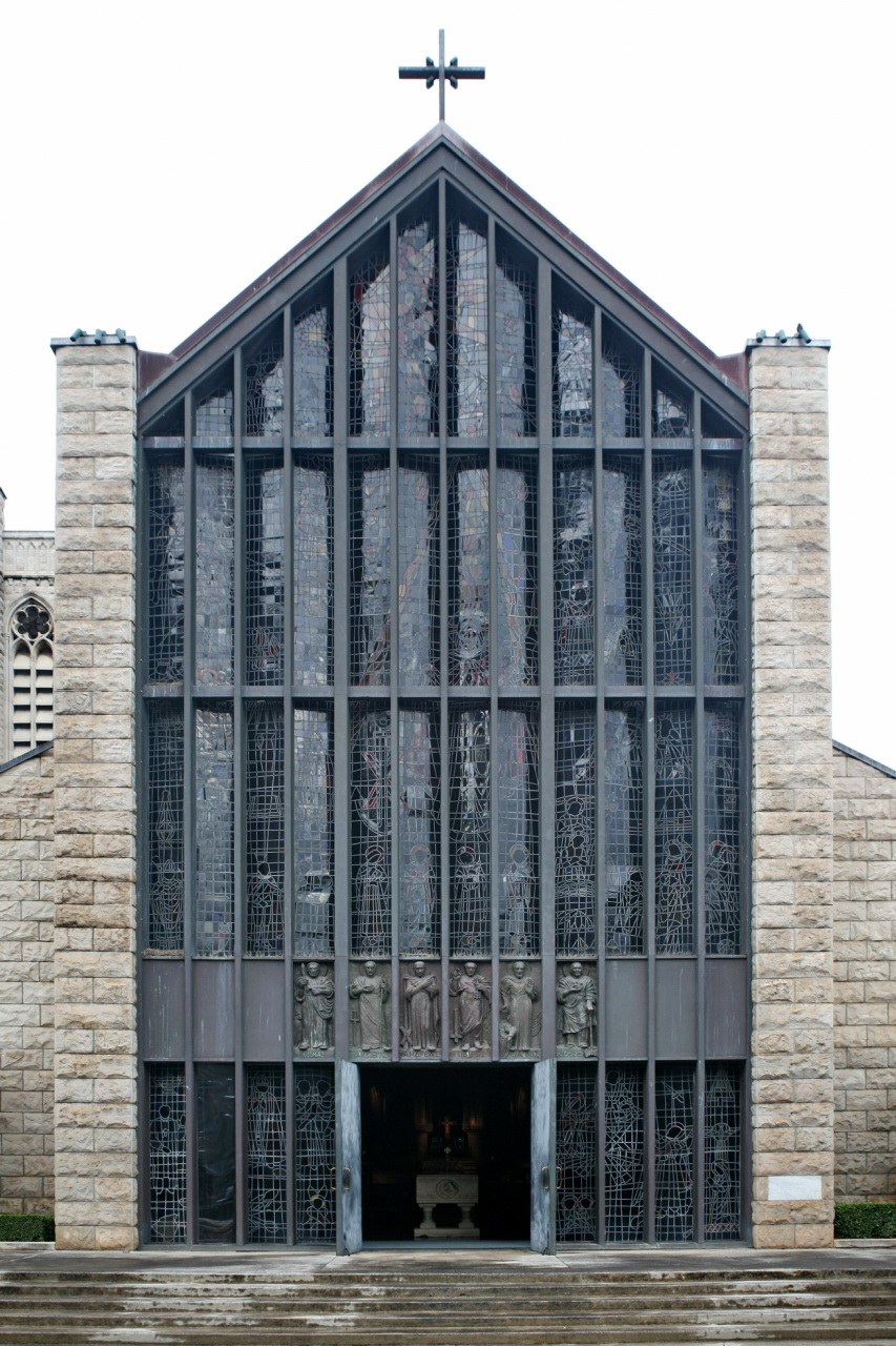 While St. Andrew’s Cathedral was begun in what has been called the Golden Age of the Hawaiian monarchy, it persevered through the upheaval of the overthrow of the monarchy, garnering in those troubled times the allegiance of both Queen Liliuokalani, Hawaii’s last monarch, and Sanford Dole, President of the Republic of Hawaii. Queen Liliuokalani acquired the mantel of Queen Emma as a visible and energetic leader in the work of the church, rising above the shattered past and moving into the twentieth century. In 1902, Hawaii having become a Territory of the United States, the Church of England deemed it appropriate to transfer its responsibility for the church in Hawaii to the Episcopal Church of the United States.